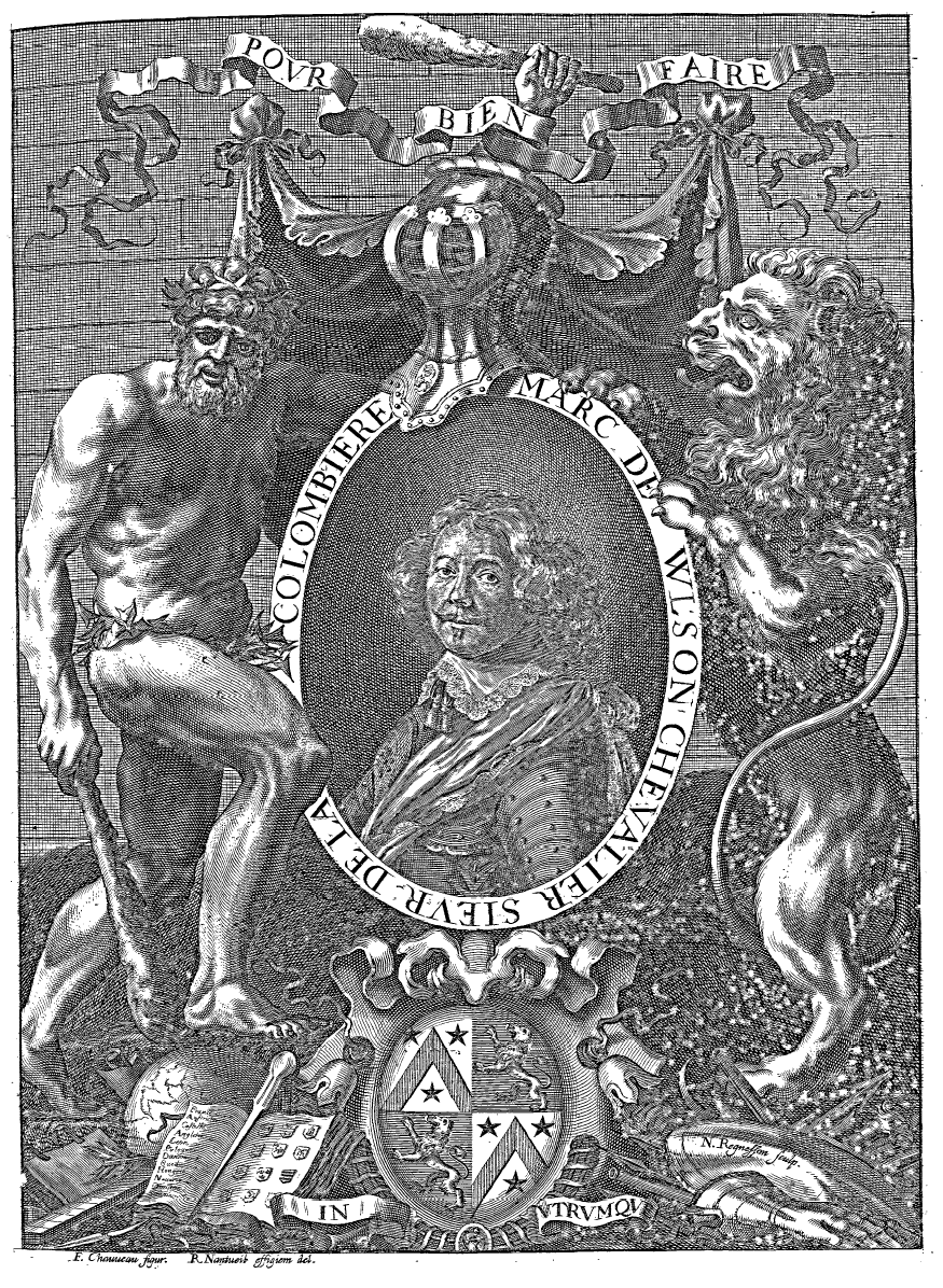 The portrait of de la Colombière from his book La science Héroïque (Paris, 1644). Engraved by Robert Nantueil (Reims, 1623- Paris, 1678) after the draving of F. Channeau.